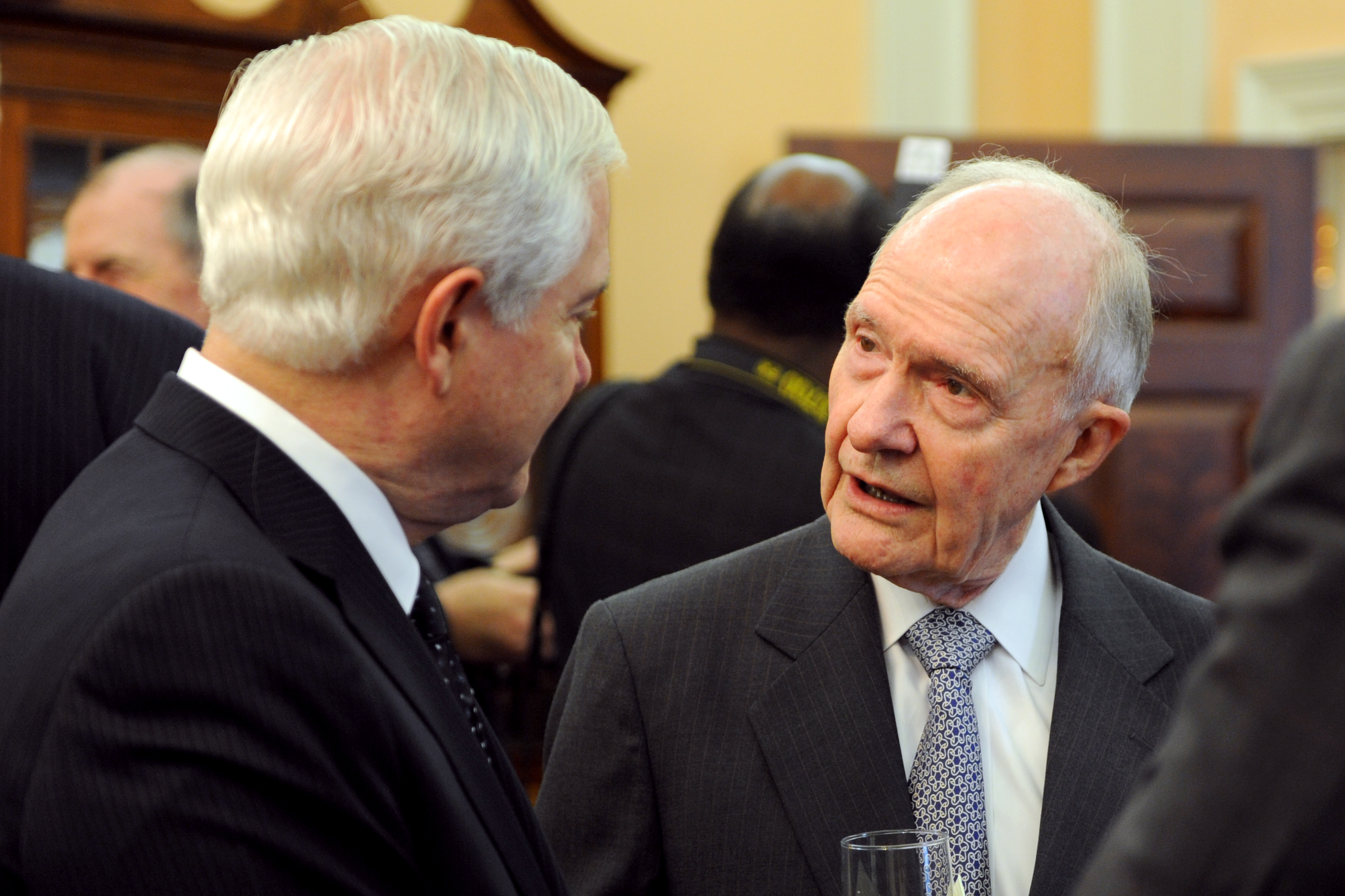 Defense Secretary Robert M. Gates speaks with retired Air Force Lt. Gen. Brent Scowcroft during the George C. Marshall Foundation Award presentation at the State Department in Washington, D.C., Oct. 16, 2009. Scowcroft served as national security advisor for Presidents Gerald Ford and George H.W. Bush.